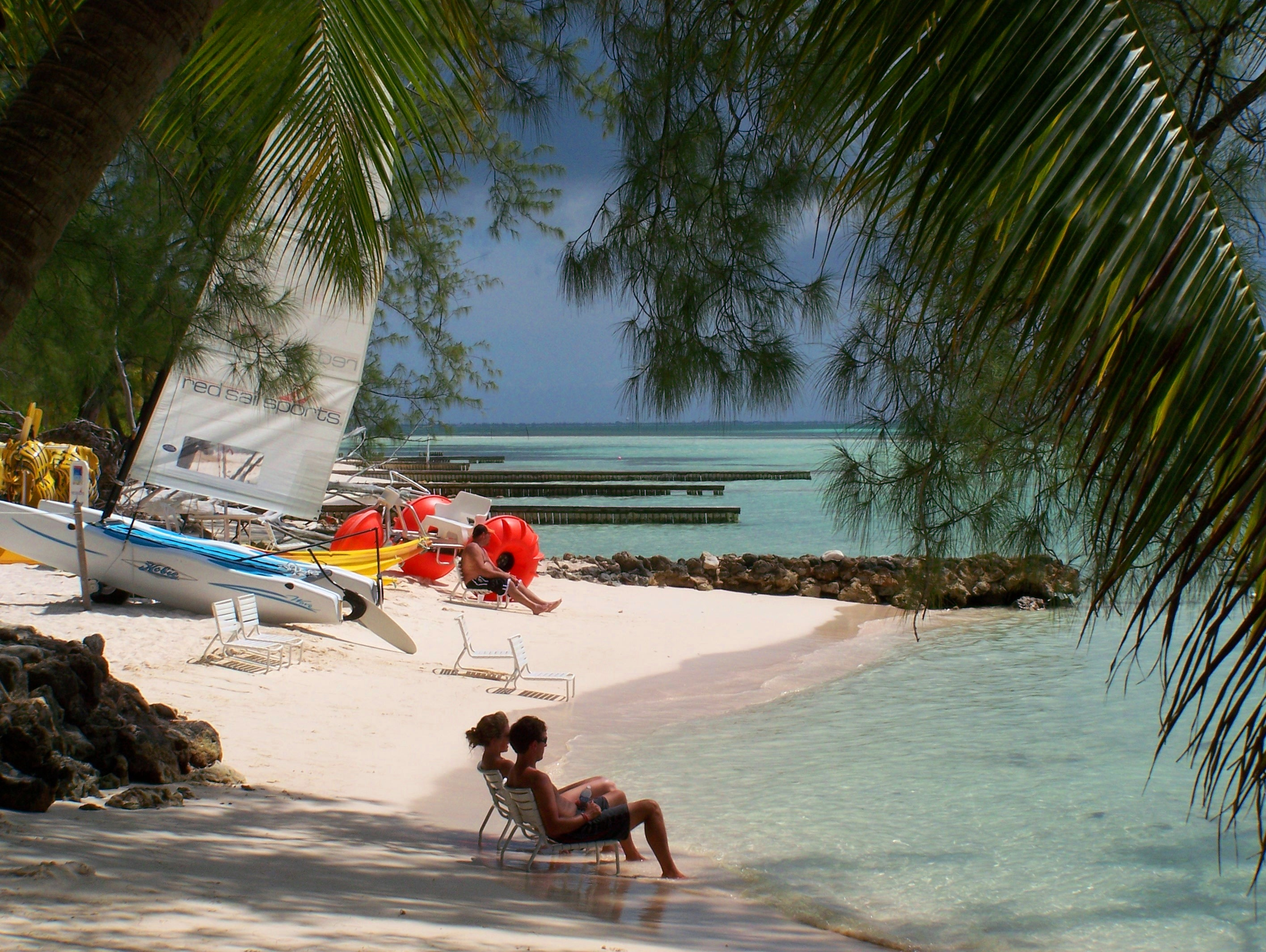 Beach at Rum Point, North Side - Grand Cayman Island